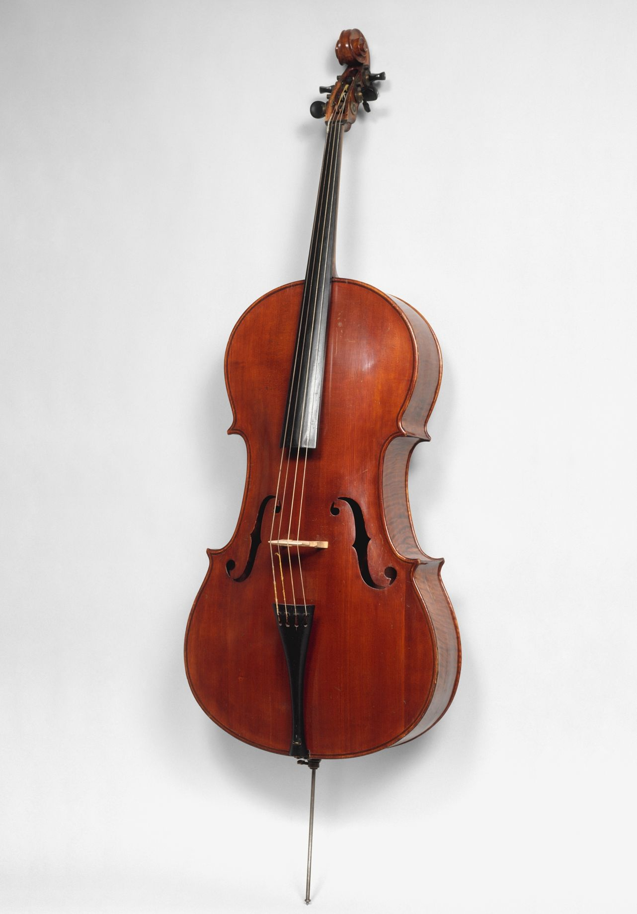 American; Yankee Bass Viol; Chordophone-Lute-bowed-unfretted